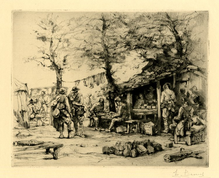 British Museum reference 1949,0411.2395 Detailed description Soldiers Camp (etching by Auguste Brouet) Size 23,9 x 29,6 cm